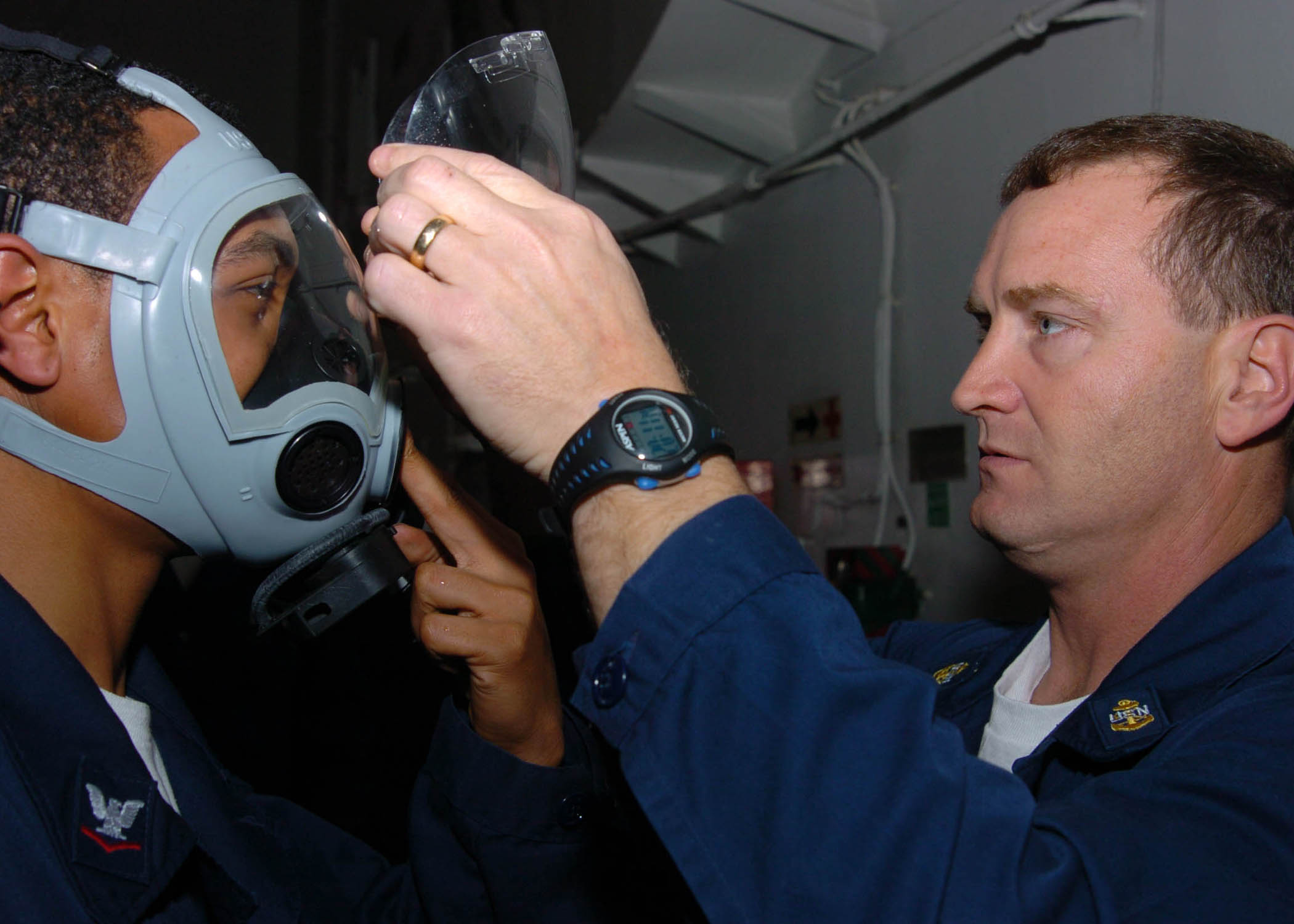 Atlantic Ocean (Jan. 27, 2006) - Chief Damage Controlman, John Brooks, removes the face shield from a Sailor’s MCU-2/P gas mask after washing it with decontamination solution during a General Quarters Drill aboard the Nimitz class aircraft carrier USS Dwight D. Eisenhower (CVN 69). Eisenhower is underway conducting carrier qualifications. U.S. Navy photo by Airman Peter Carnicelli (RELEASED)